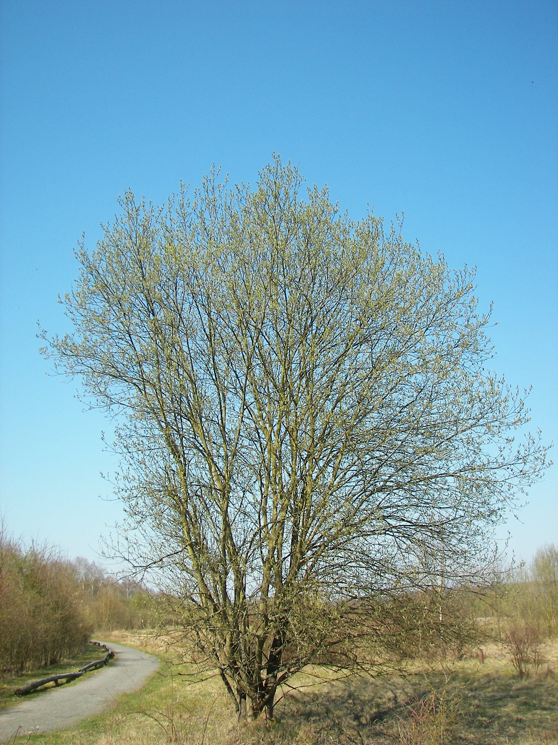 Goat Willow (Salix caprea), Location: Erlensee near Kirchhain, Hesse, Germany